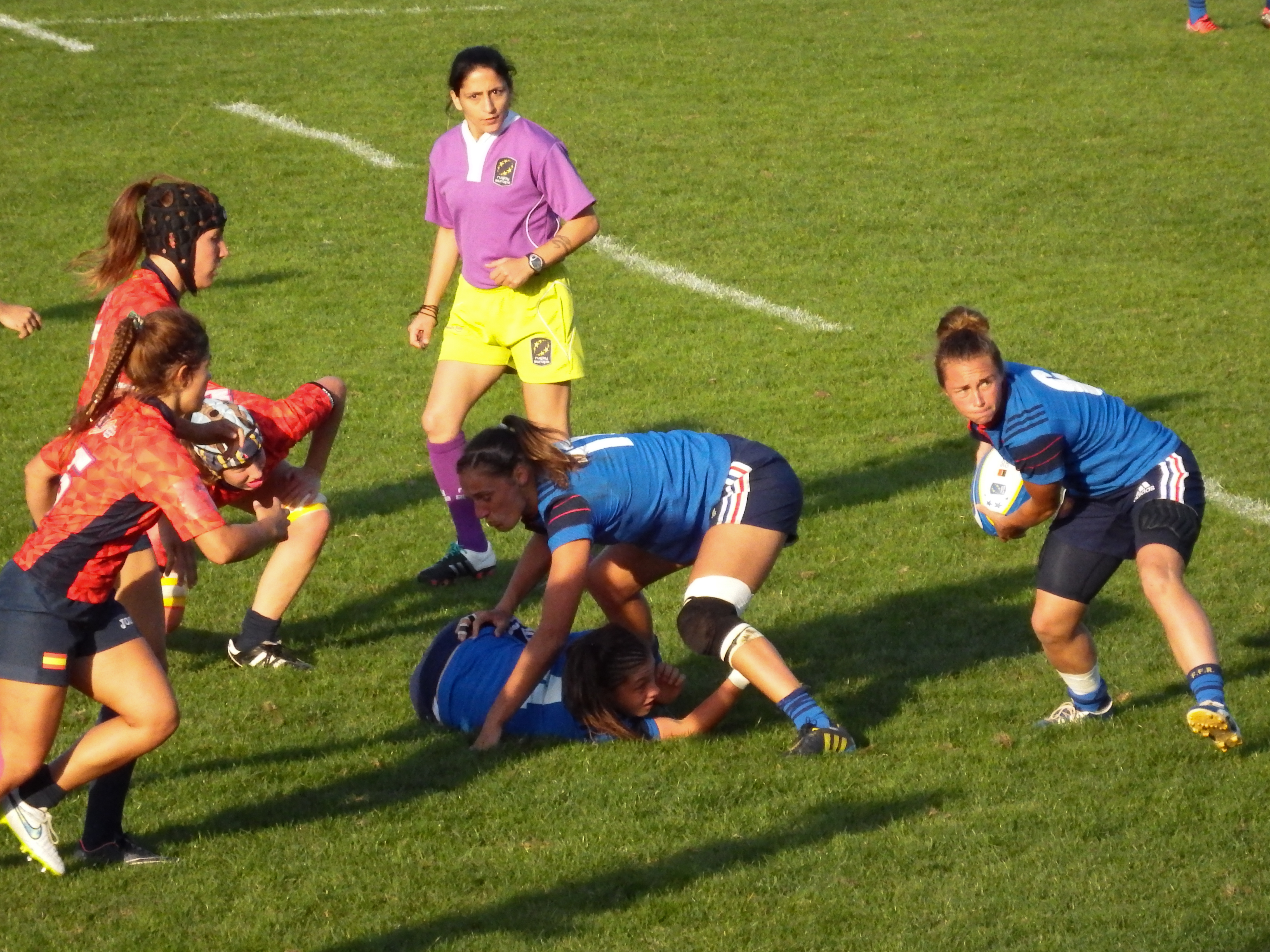 Malemort Sevens 2016 — 24 September 2016, stade Raymond-Faucher. Match between: France — Spain